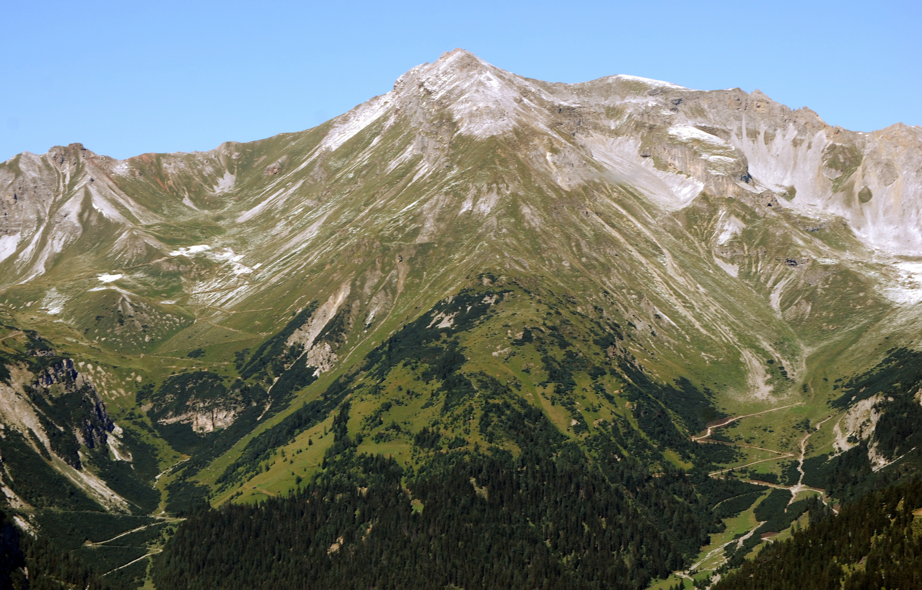 Kesselspitze 2728m from SE (Nösslachjoch)